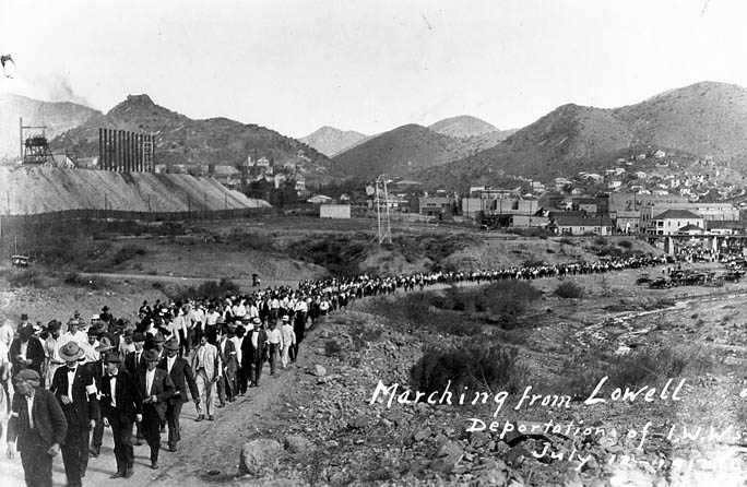 Deportation of striking miners from Bisbee, Arizona, on July 12, 1917. Striking miners and others rounded up in the nearby town of Lowell, Ariz., are marched toward Bisbee, for deportation to New Mexico.